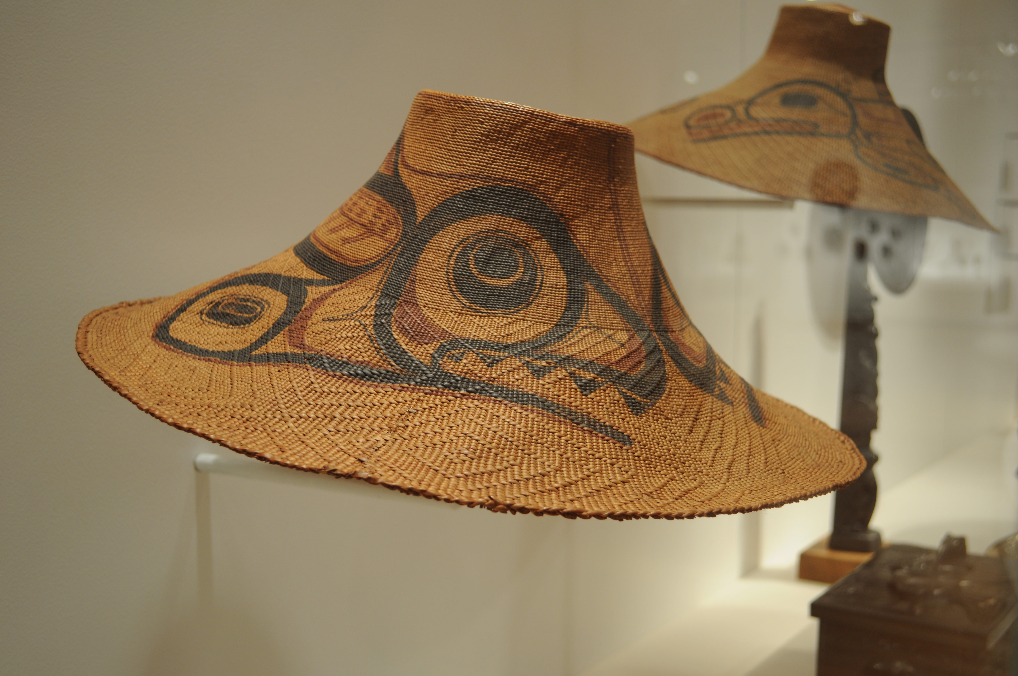 Painted woven hat